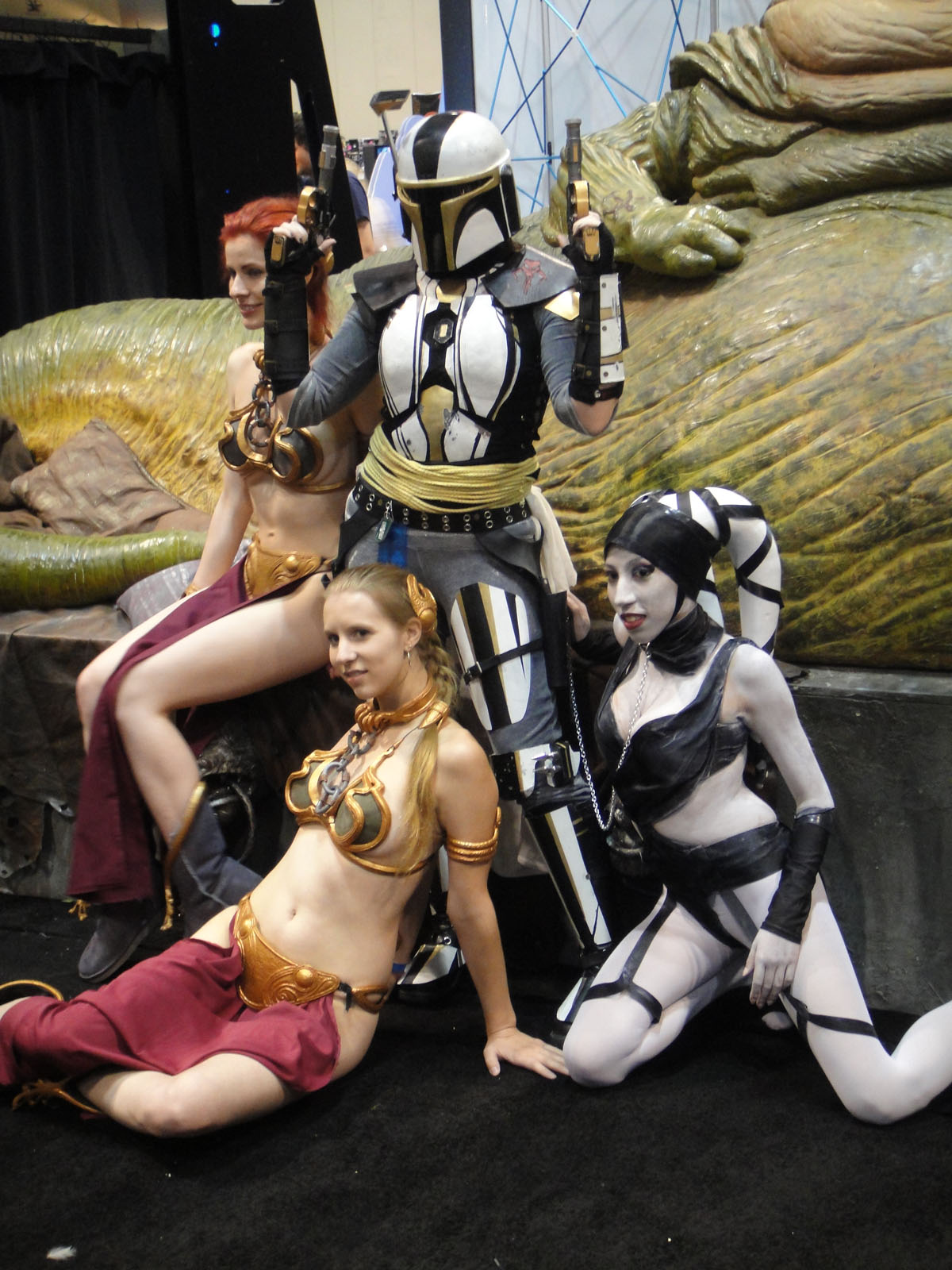 Star Wars Celebration V - female Mandalorian, slave Leias, Oola, and Jabba.